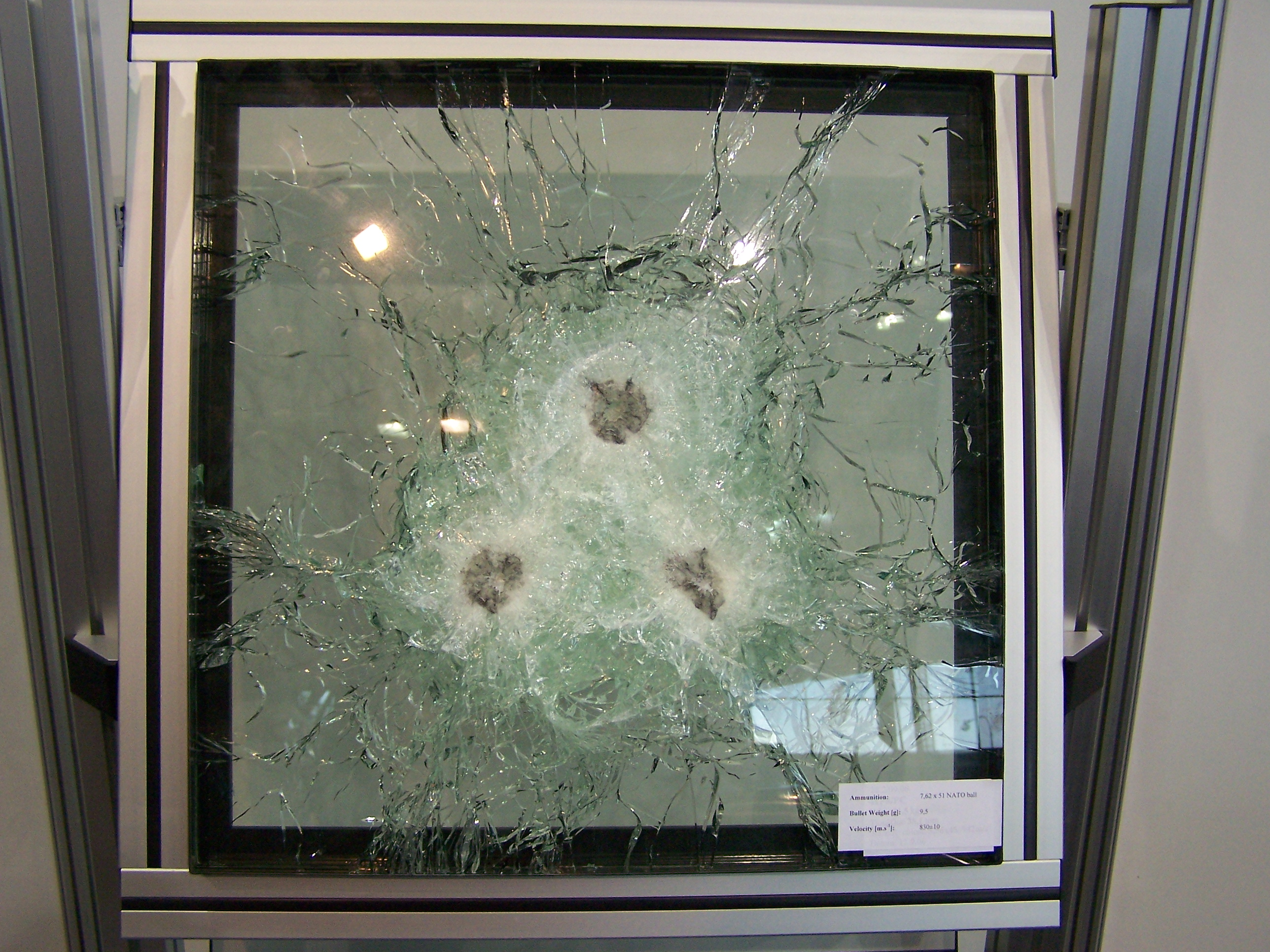 Laminated bullet-resistant glass after ballistic tests. From IDET 2007 fair in Brno